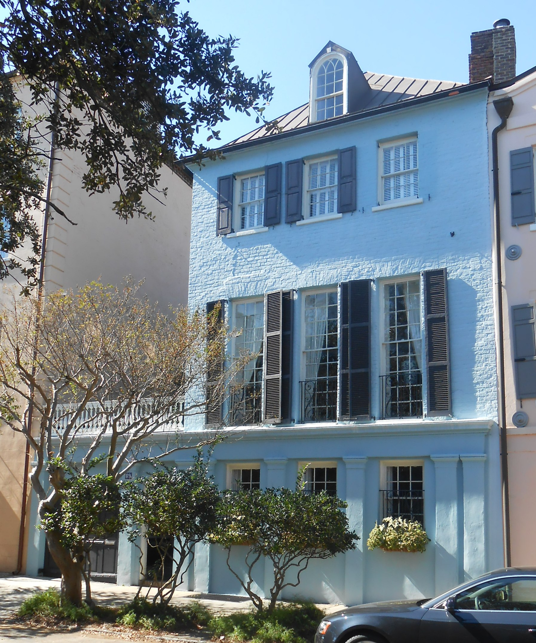 89 East Bay Street, Charleston, South Carolina